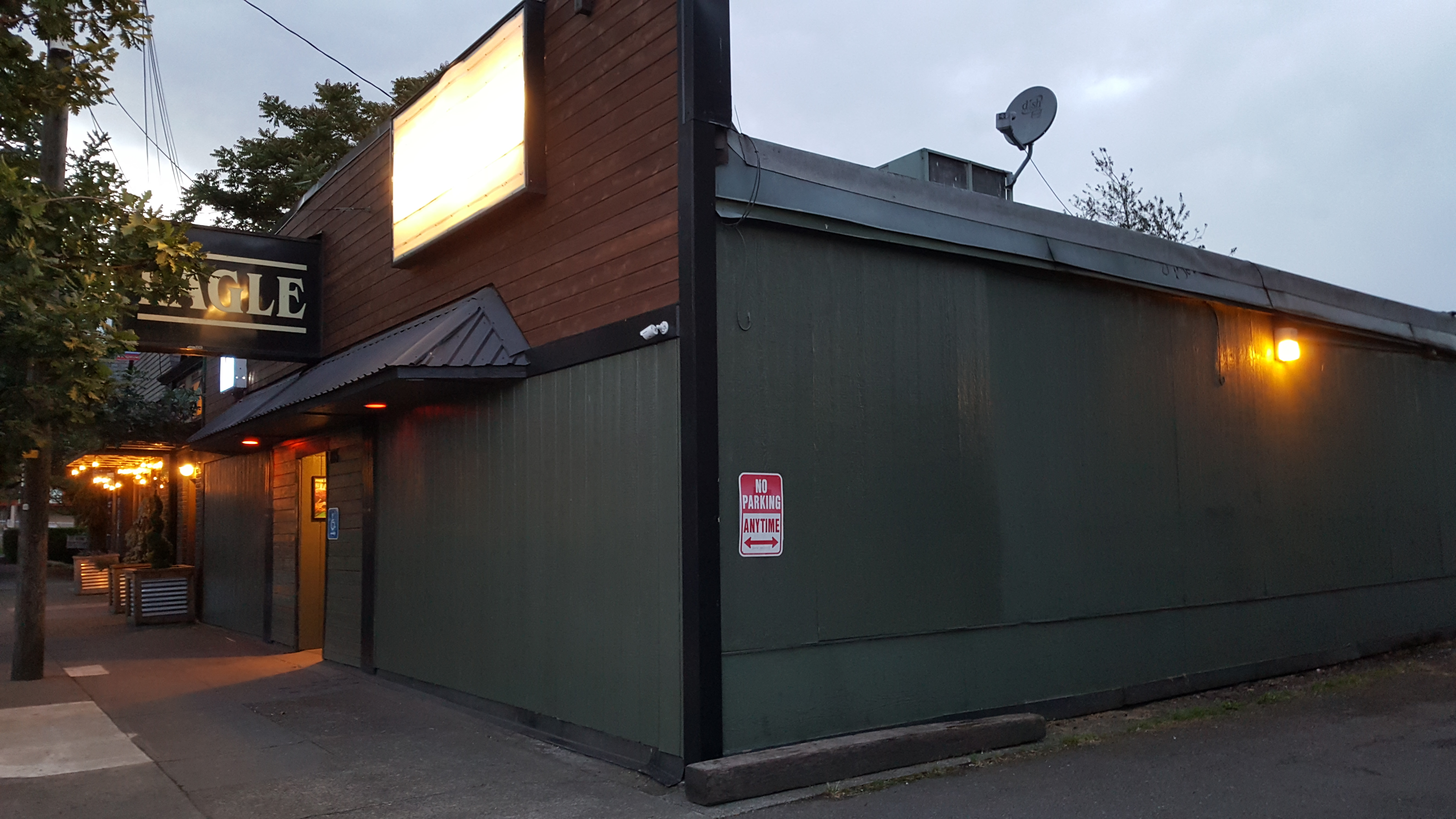 Eagle Portland in June 2019